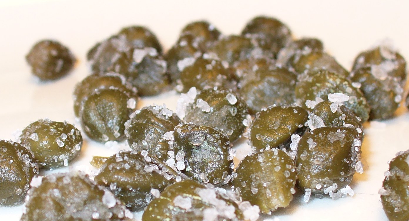 Salted capers